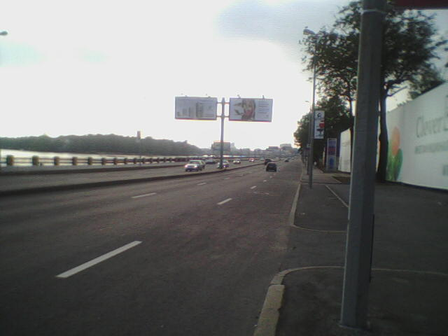 Ushakovskay nabereznaya of river Bolshaya Nevka, Saint-Petersburg, Russia